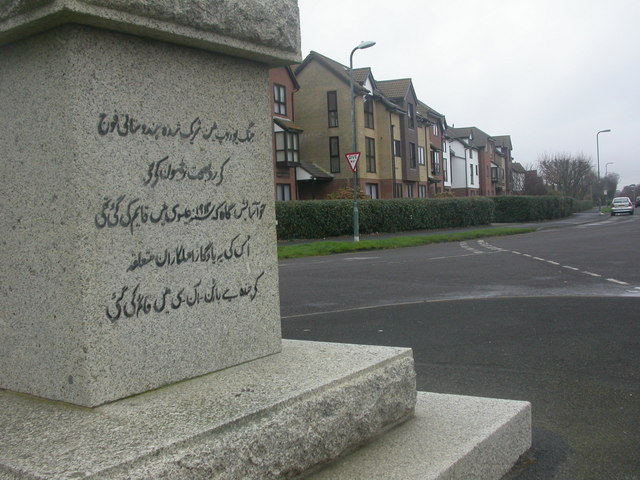 Barton on Sea, obelisk, Urdu detail. How many inscriptions can there be in Barton that are written in Urdu? This appears on obelisk 1088436, and is on the east face.